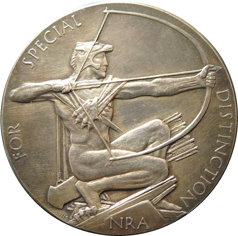 Kings Medal awarded by by the National Rifle Association of the United Kingdom